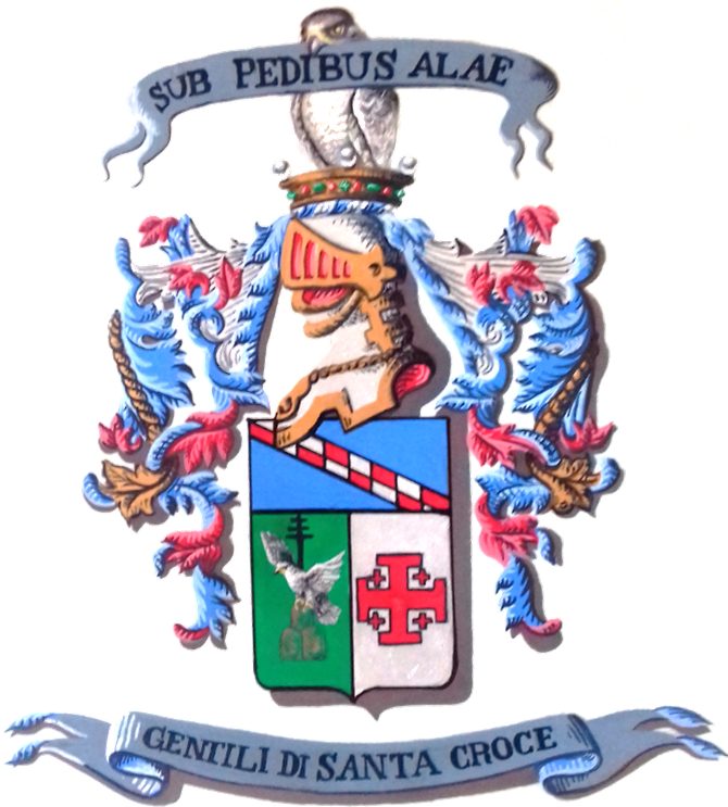 Stemma dei Gentili di Santa Croce, nobili (mf) e cavalieri ereditari (m)